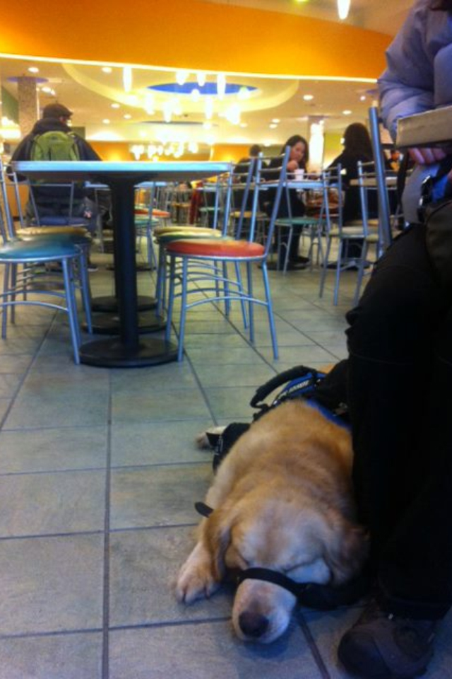 Service dog at the handler's feet while they eat at a shopping mall.